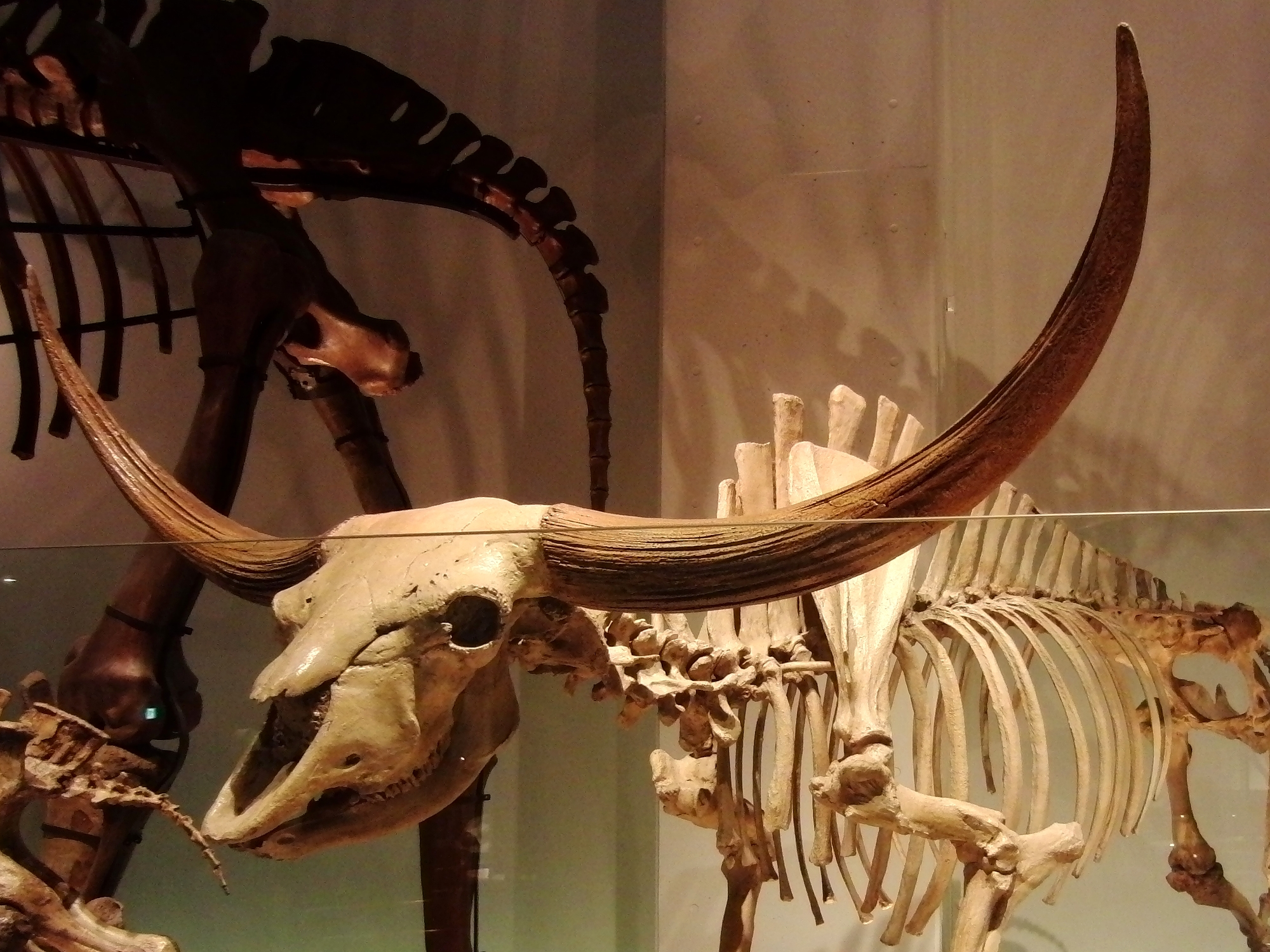 Skelton of Bison latifrons. Exhibit in the National Museum of Nature and Science, Tokyo, Japan.